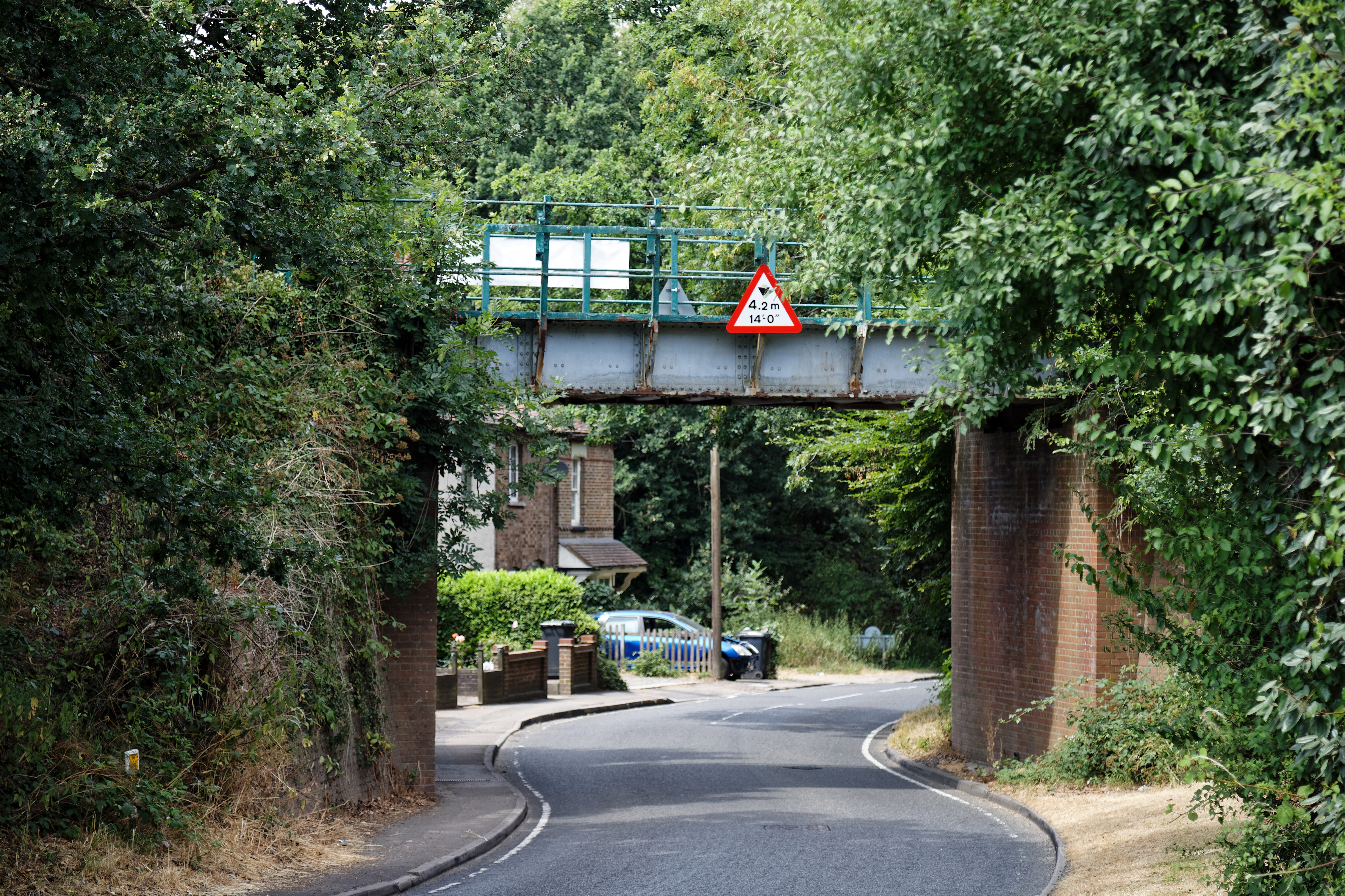 The bridge of the Epping Ongar Railway over Coopersale Common Road at Coopersale, in the civil parish of Epping, Essex, England.Camera: Canon EOS 6D Mark II with Canon EF 24-105mm F4L IS USM lens.Software: File lens-corrected, optimized, perhaps cropped, with DxO PhotoLab, and likely further optimized with Adobe Photoshop CS2.